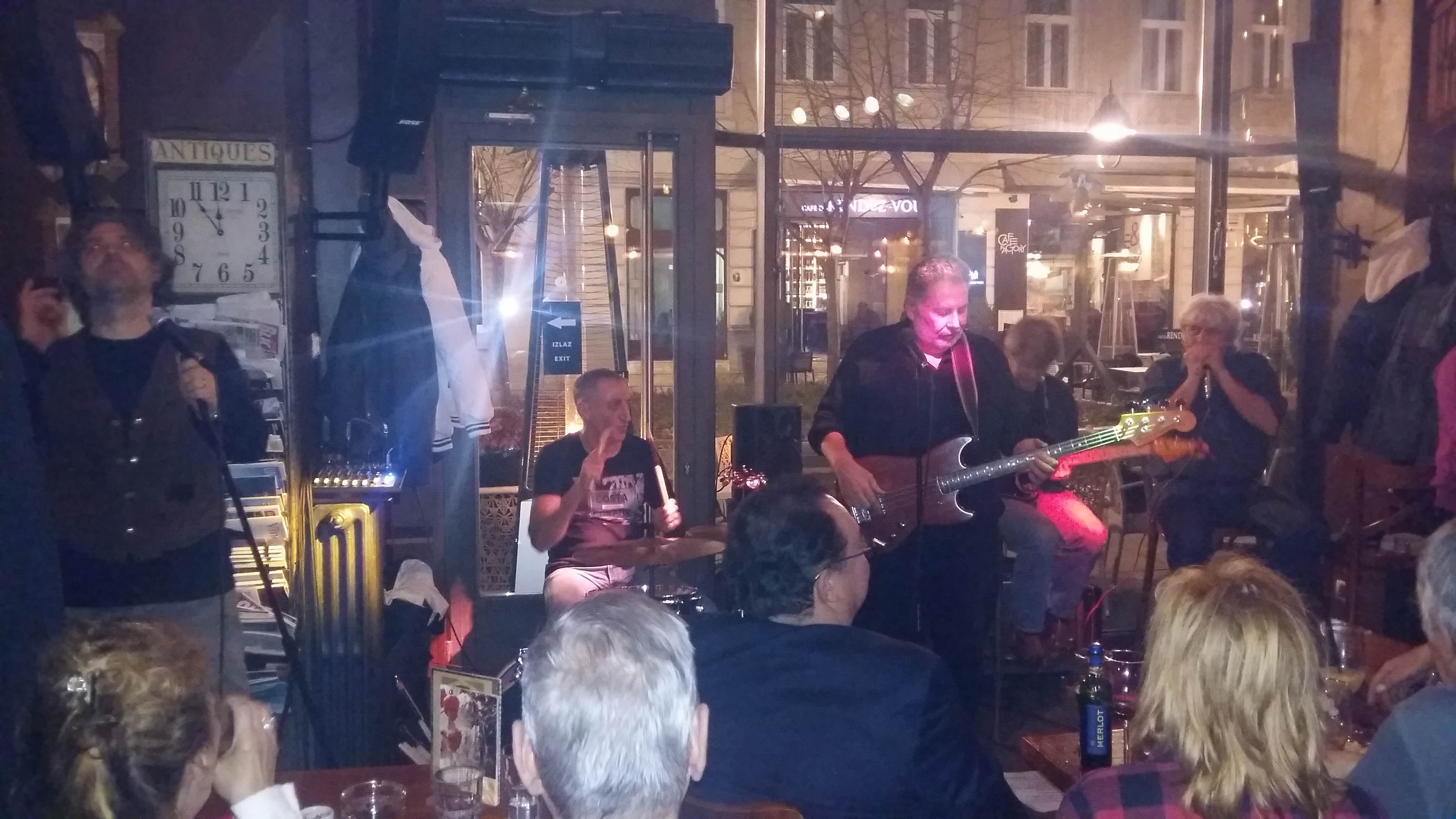 Zona B live in Belgrade